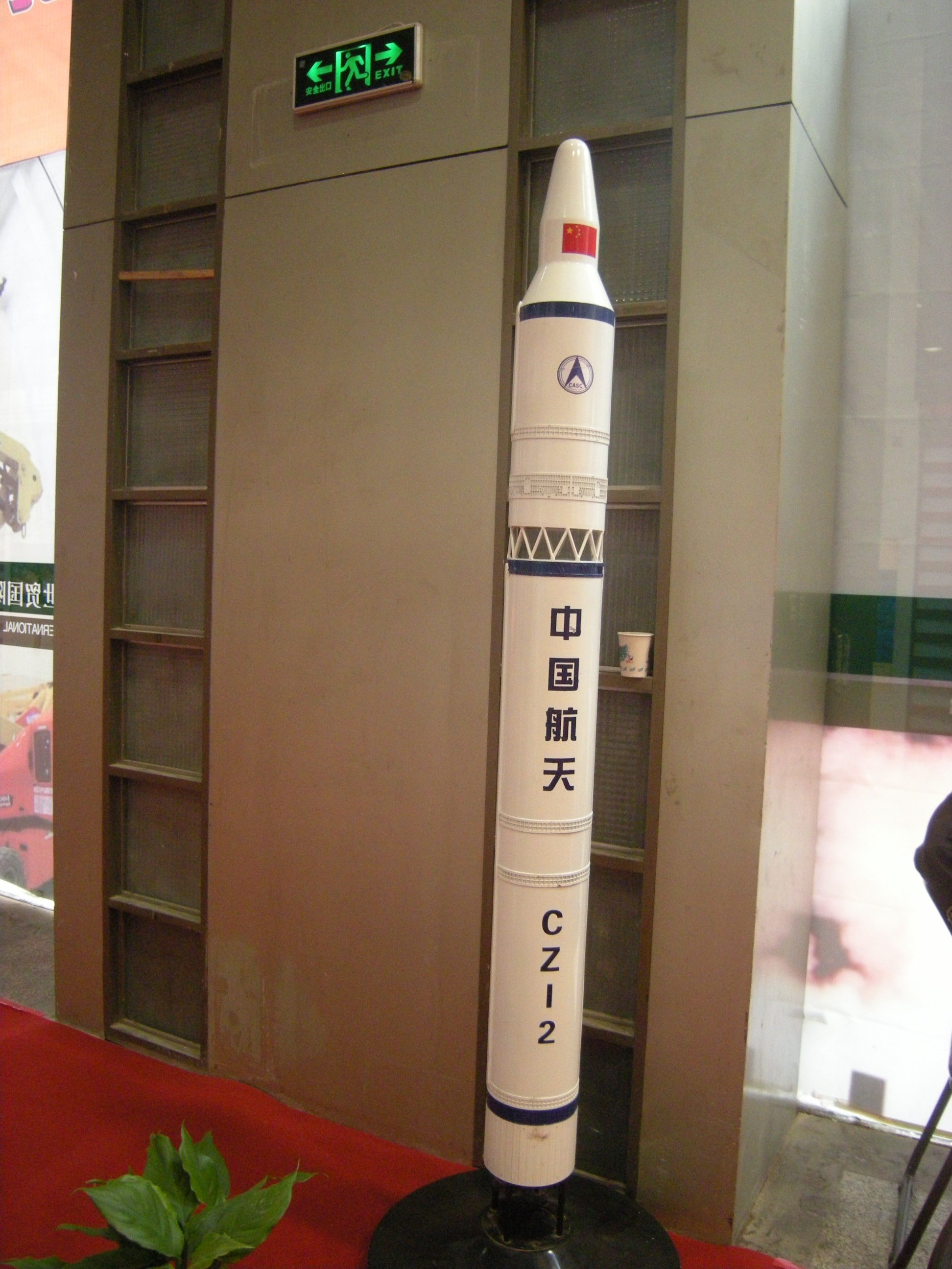 CZ-2_launch_vehicle_model